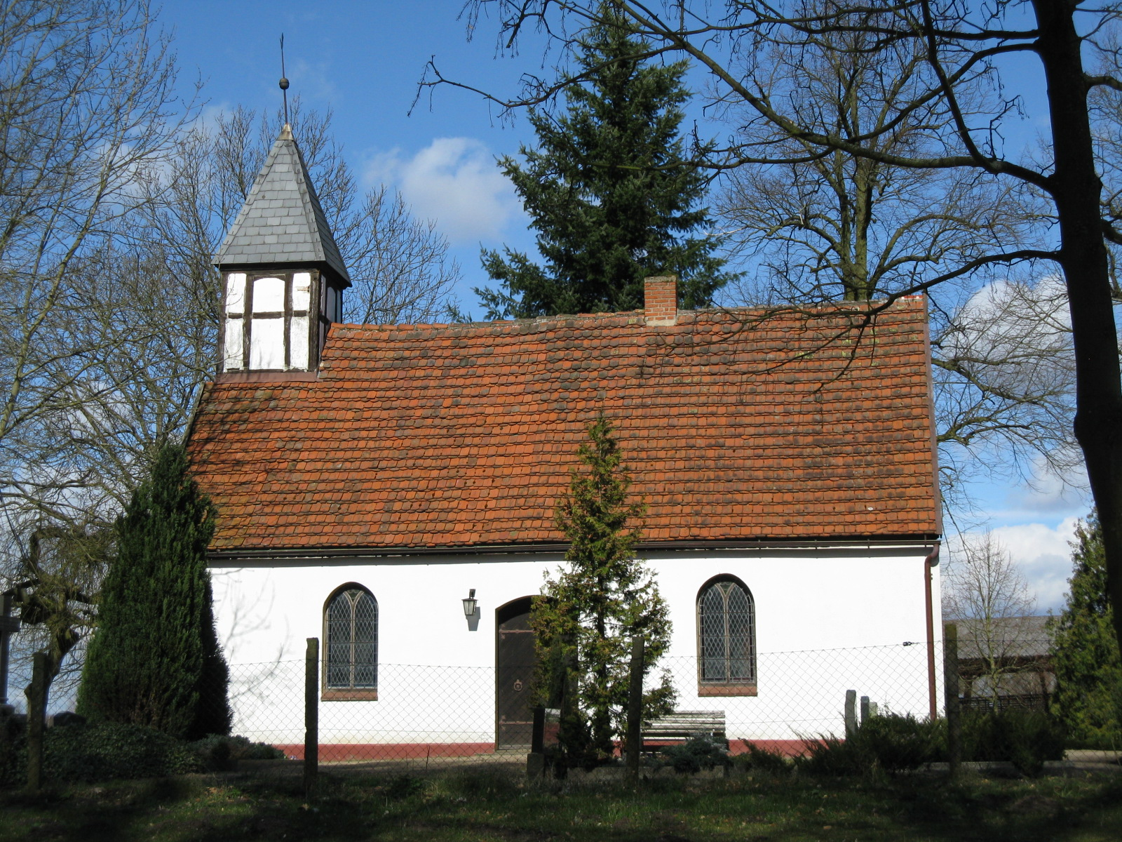 Church in Weisin, district Ludwigslust-Parchim, Mecklenburg-Vorpommern, Germany